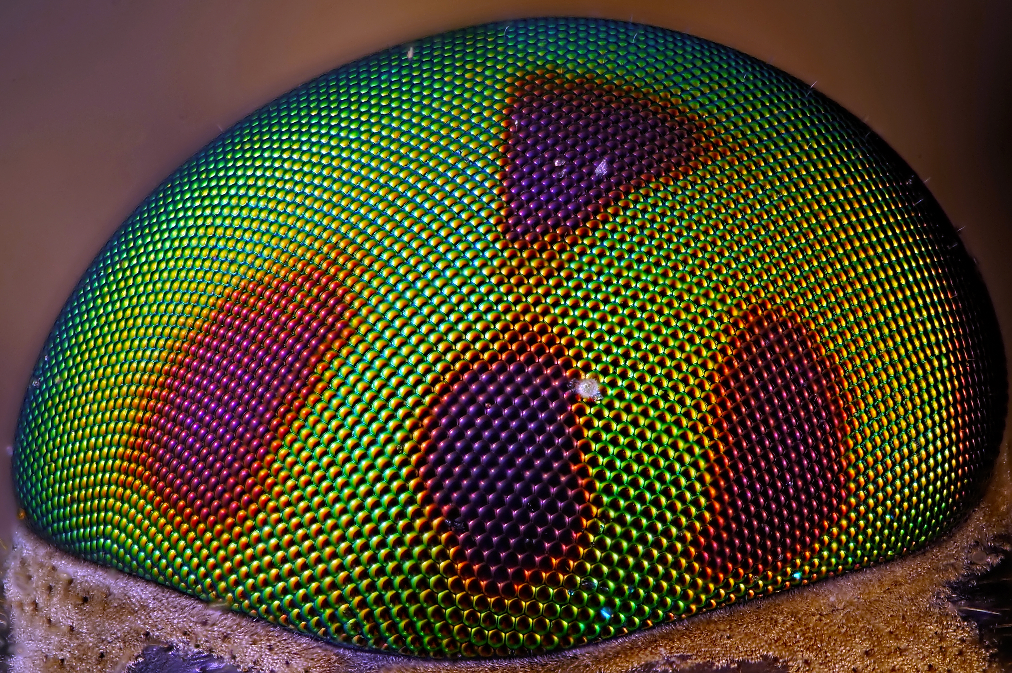 Chrysopidae еуе / (stacking of 30 frames)